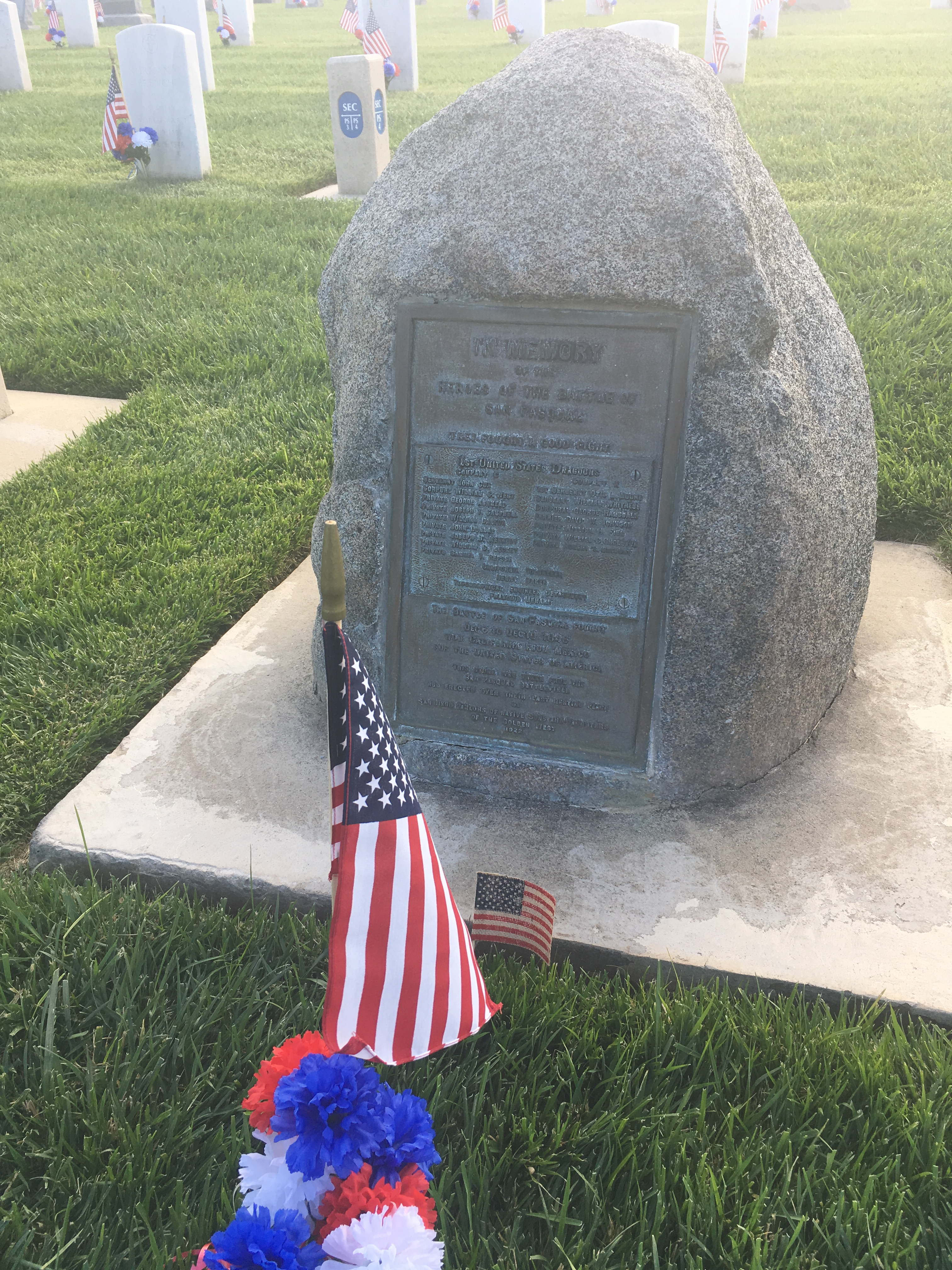 Marker of reburied servicemembers who died during the Battle of San Pasqual